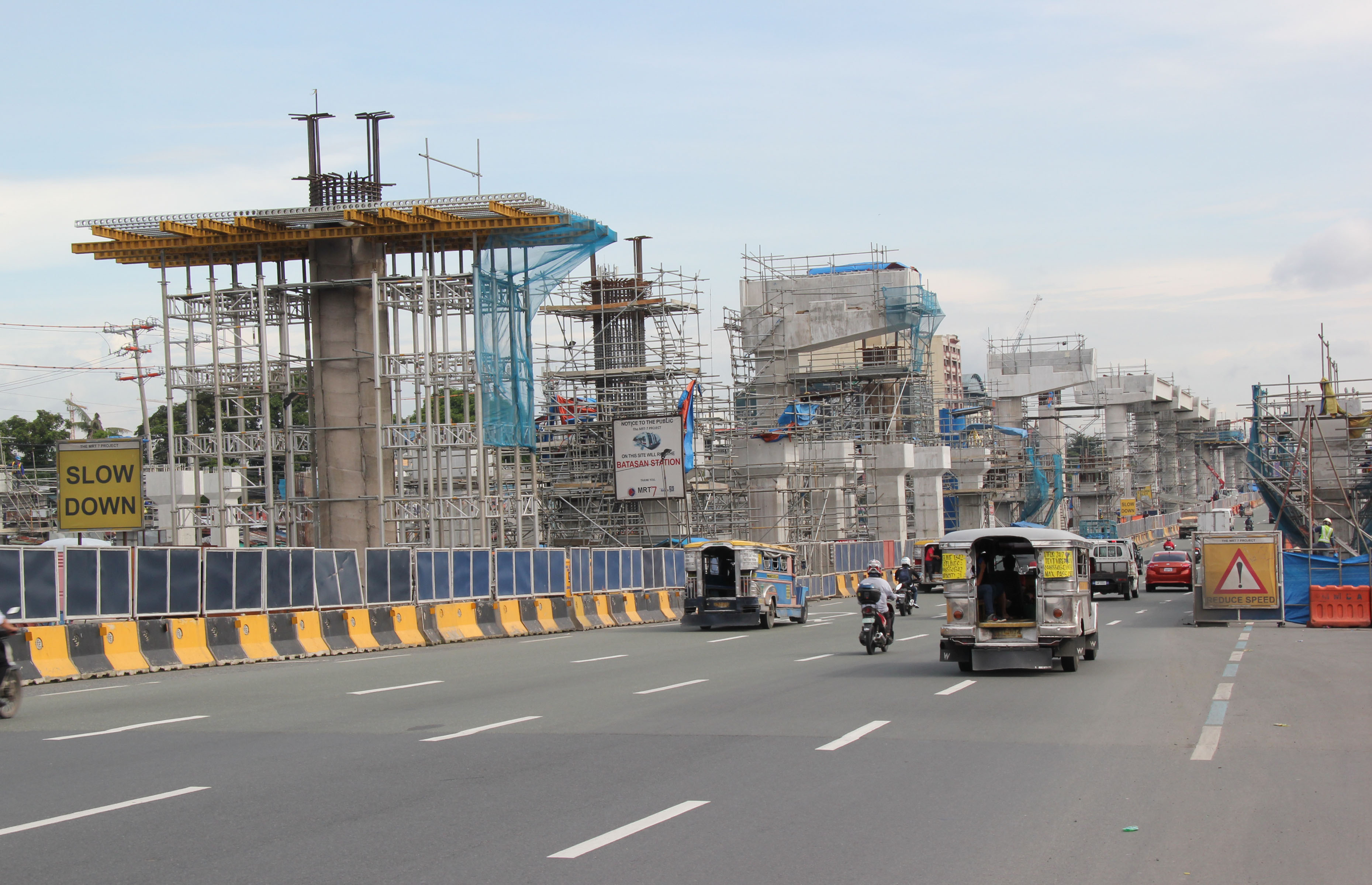 Contractors build the Metro Manila Rail Transit 7 (MRT 7) along Commonwealth Avenue near Brgy. Holy Spirit in Quezon City on Thursday (August 2, 2018). The line, which will run 22.8 km from North Avenue, Quezon City to San Jose del Monte, Bulacan, is expected to serve 350,000 passengers per day upon completion.